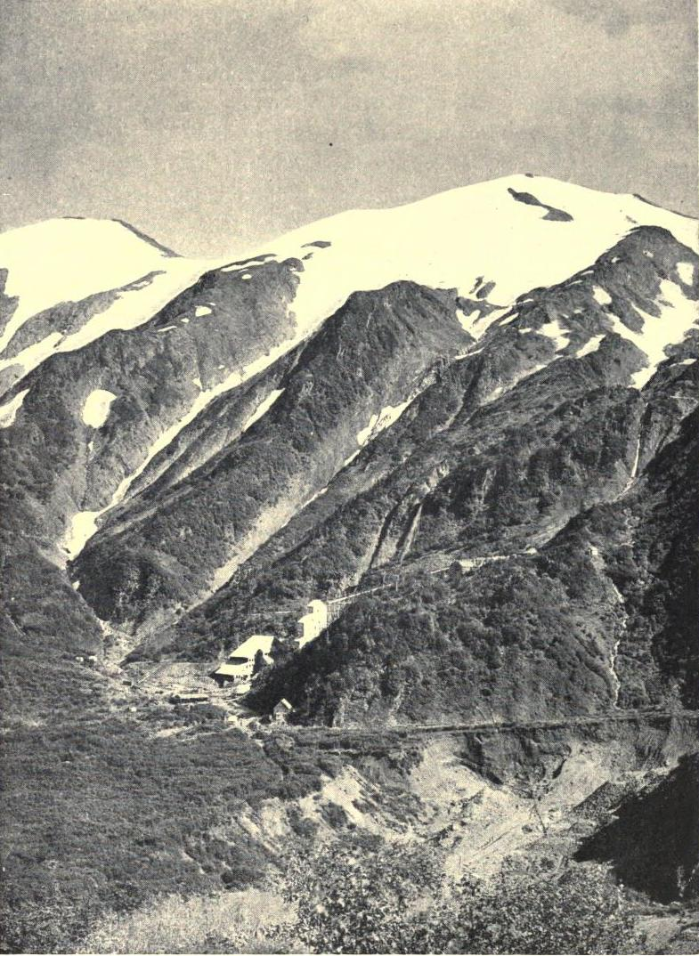 Alaska Perseverance Mill, a gold mine in Silver Bow Basin, in the mountains east of Juneau. 1908.